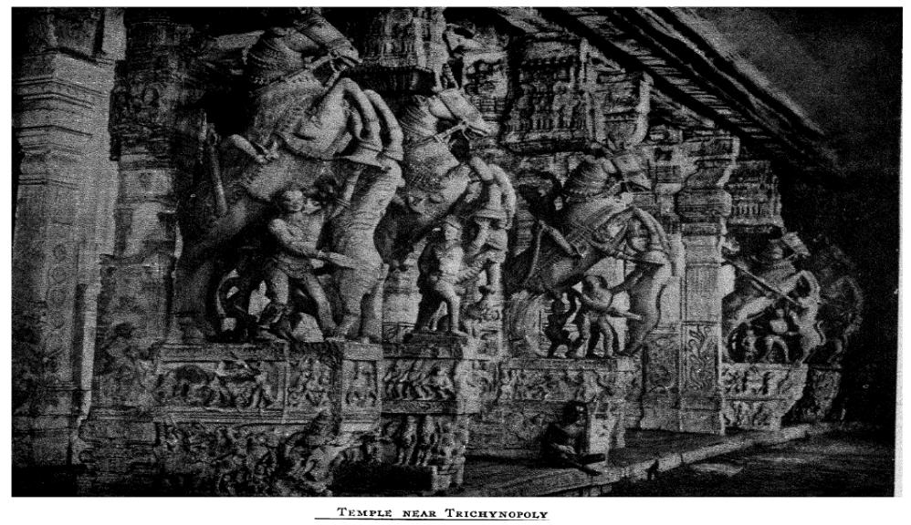 Temple near Trichnopoly (Tiruchirapalli), India, Trichy